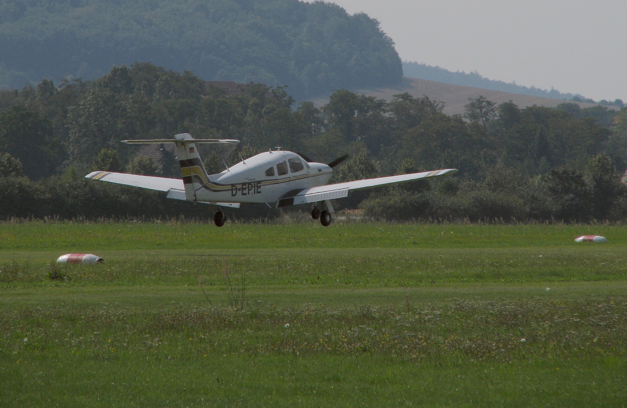 Görlitz airfield business flights private aviation Piper PA-28 Arrow IV landing Saxony Germany Photo Wolfgang Pehlemann PICT4201